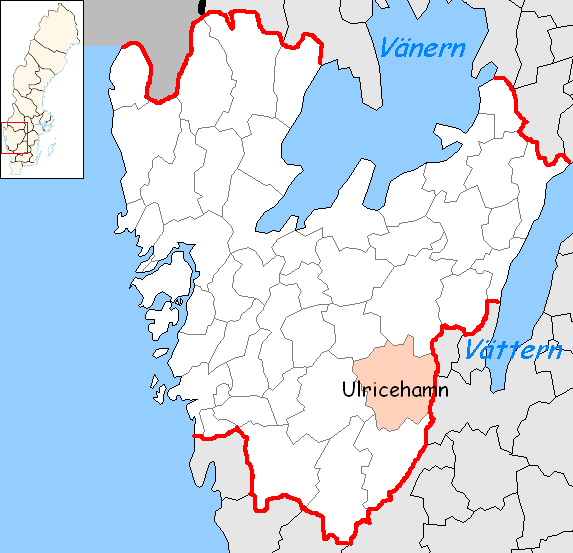 Ulricehamn Municipality in Västra Götaland County Designed by me. Mere outlines are a PD source from